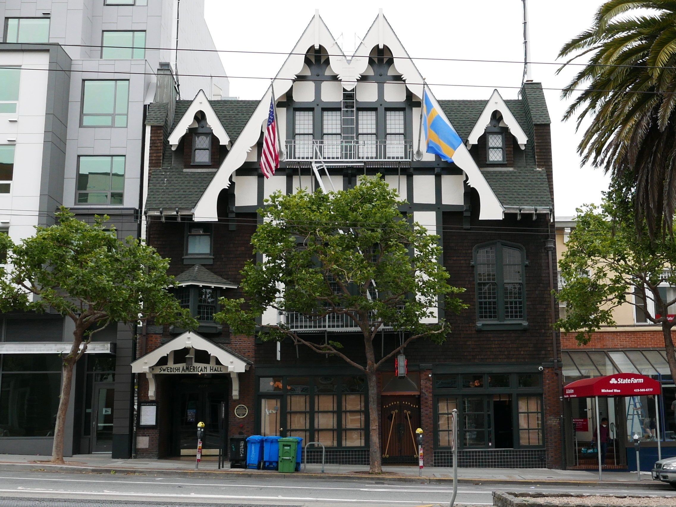 On the list of San Francisco Designated Landmarks.